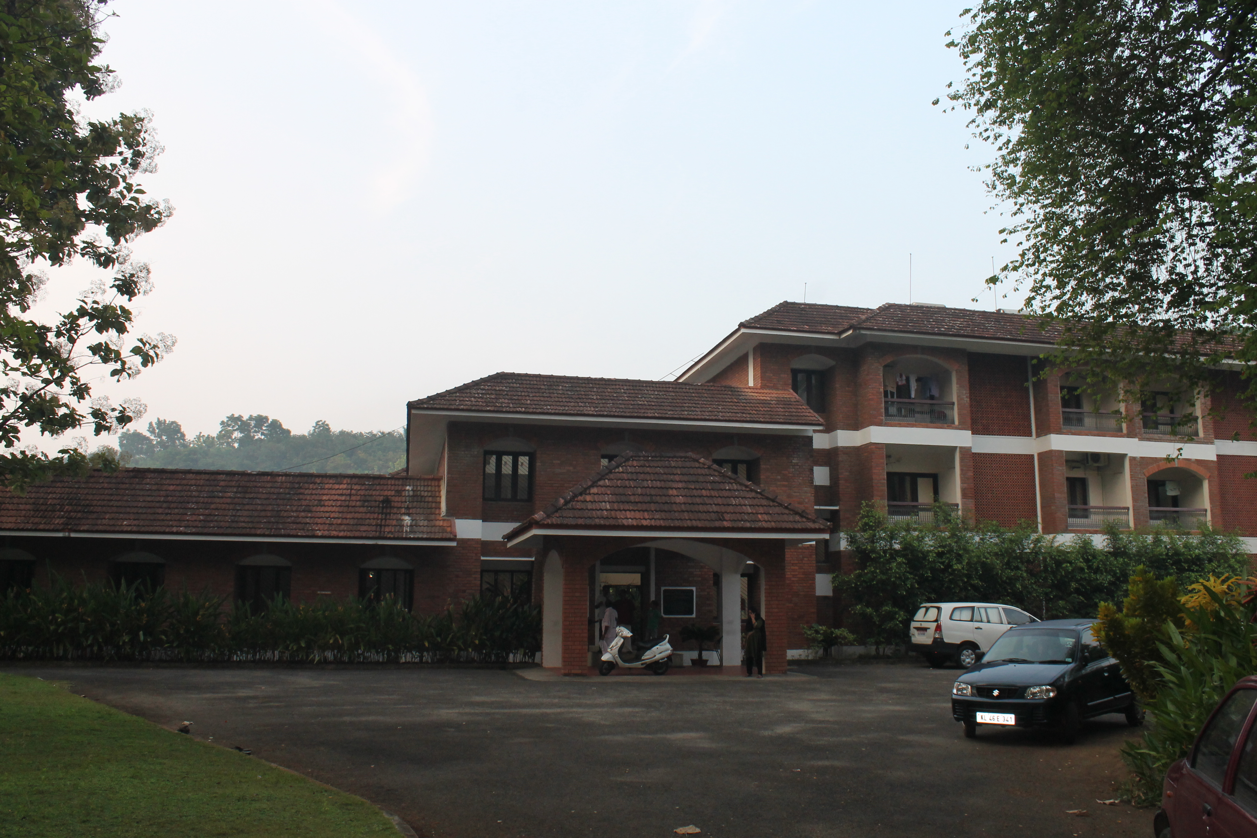 Kerala Forest Research Institute International Guest House at Peechi, Thrissur, Kerala